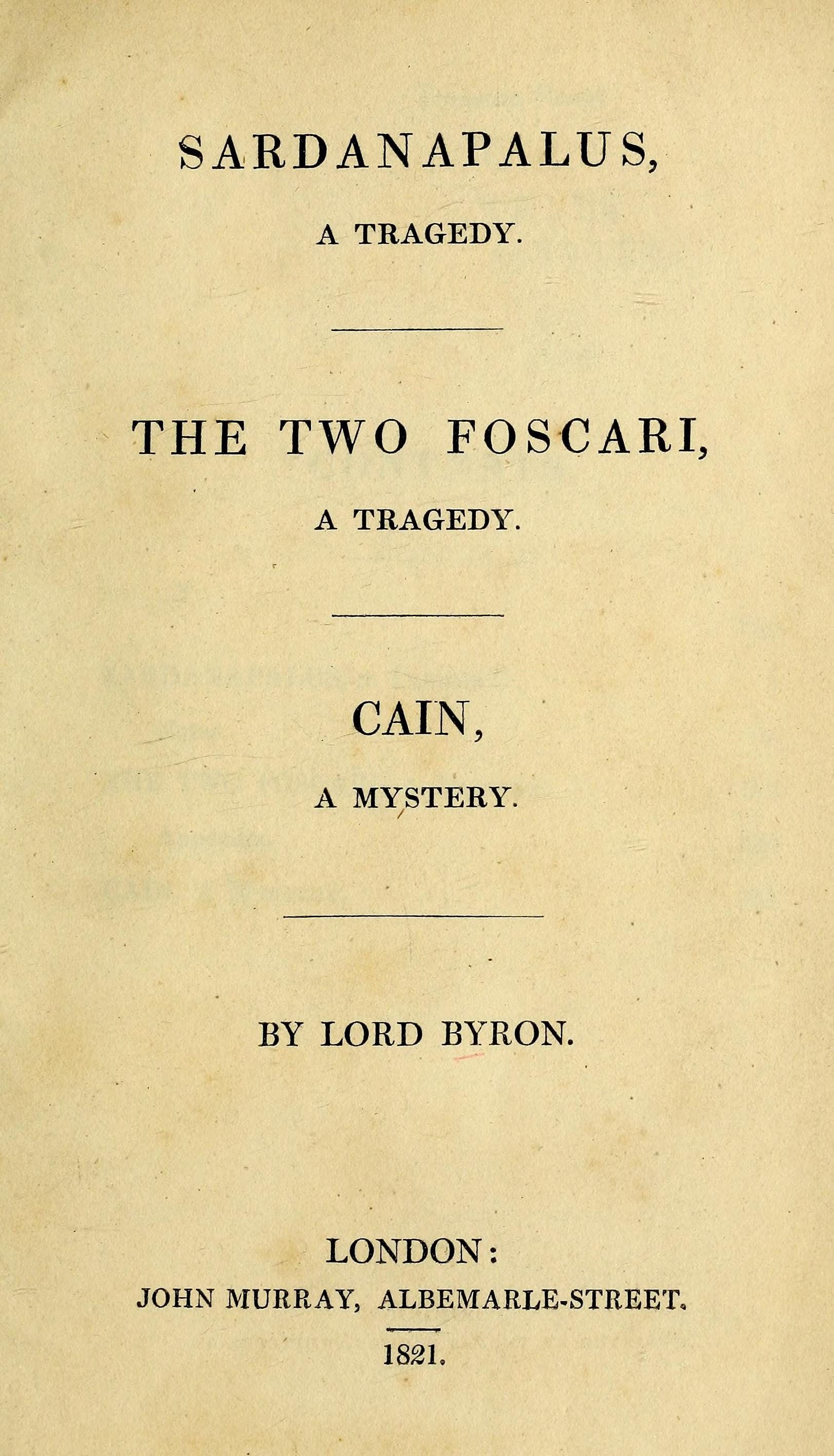 First edition title page of 3 of Byron's plays